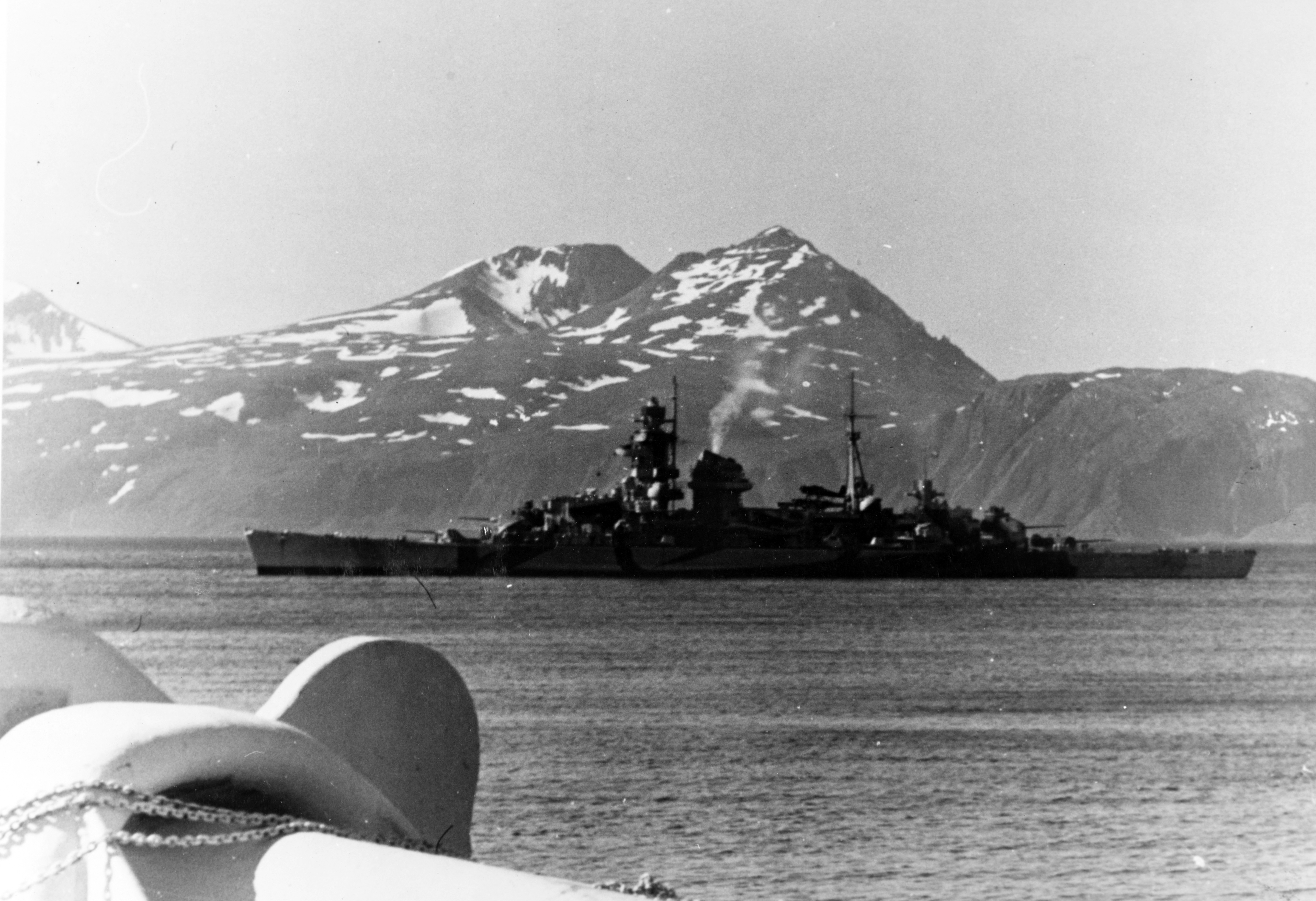 The German heavy cruiser Admiral Hipper in Norwegian waters, circa 1942.